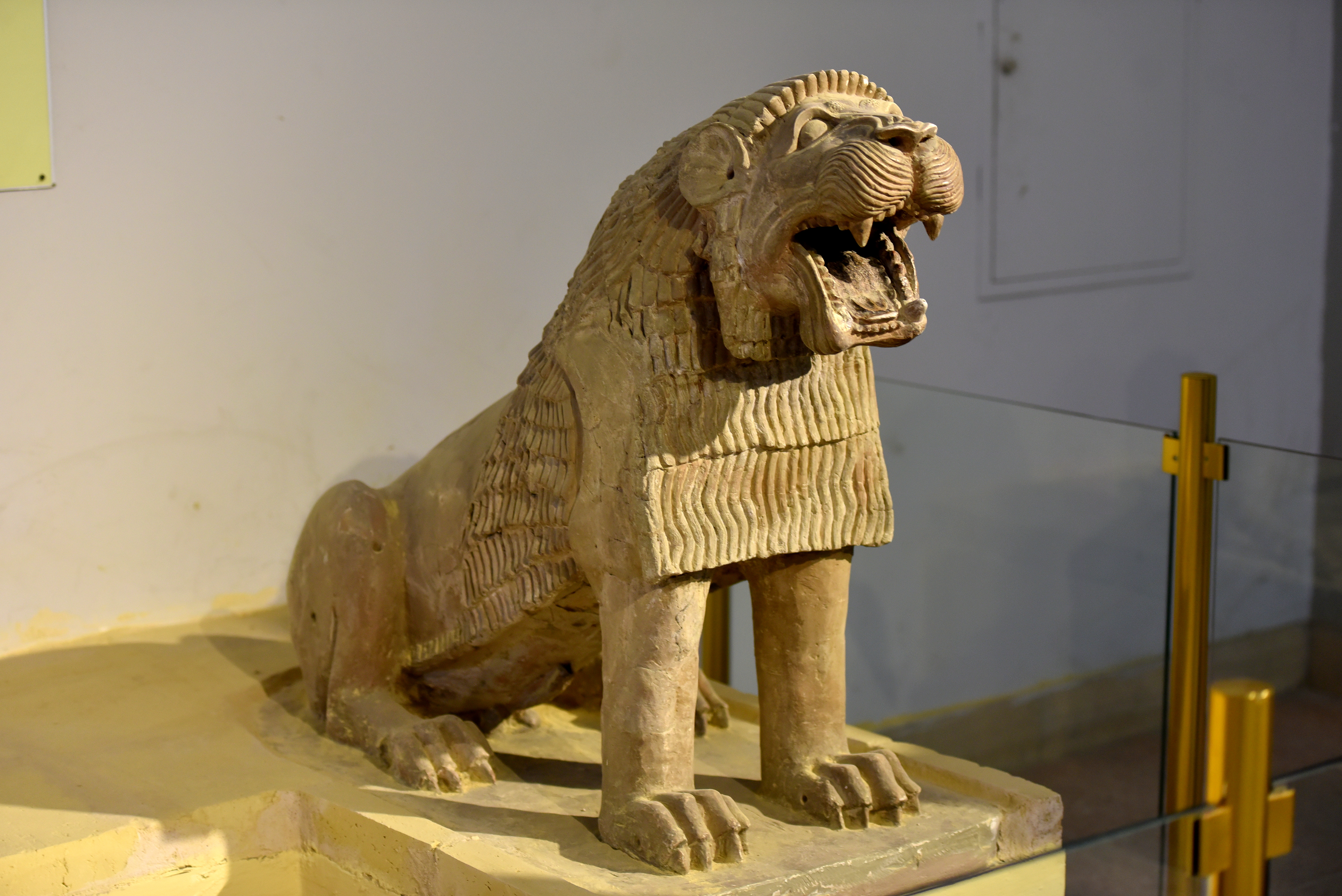 Terracotta lion from Tell Harmal (ancient Shaduppum), outskirts of Baghdad, Iraq. Old-Babylonian period, c. 1800 BCE. The Iraq Museum, Baghdad.